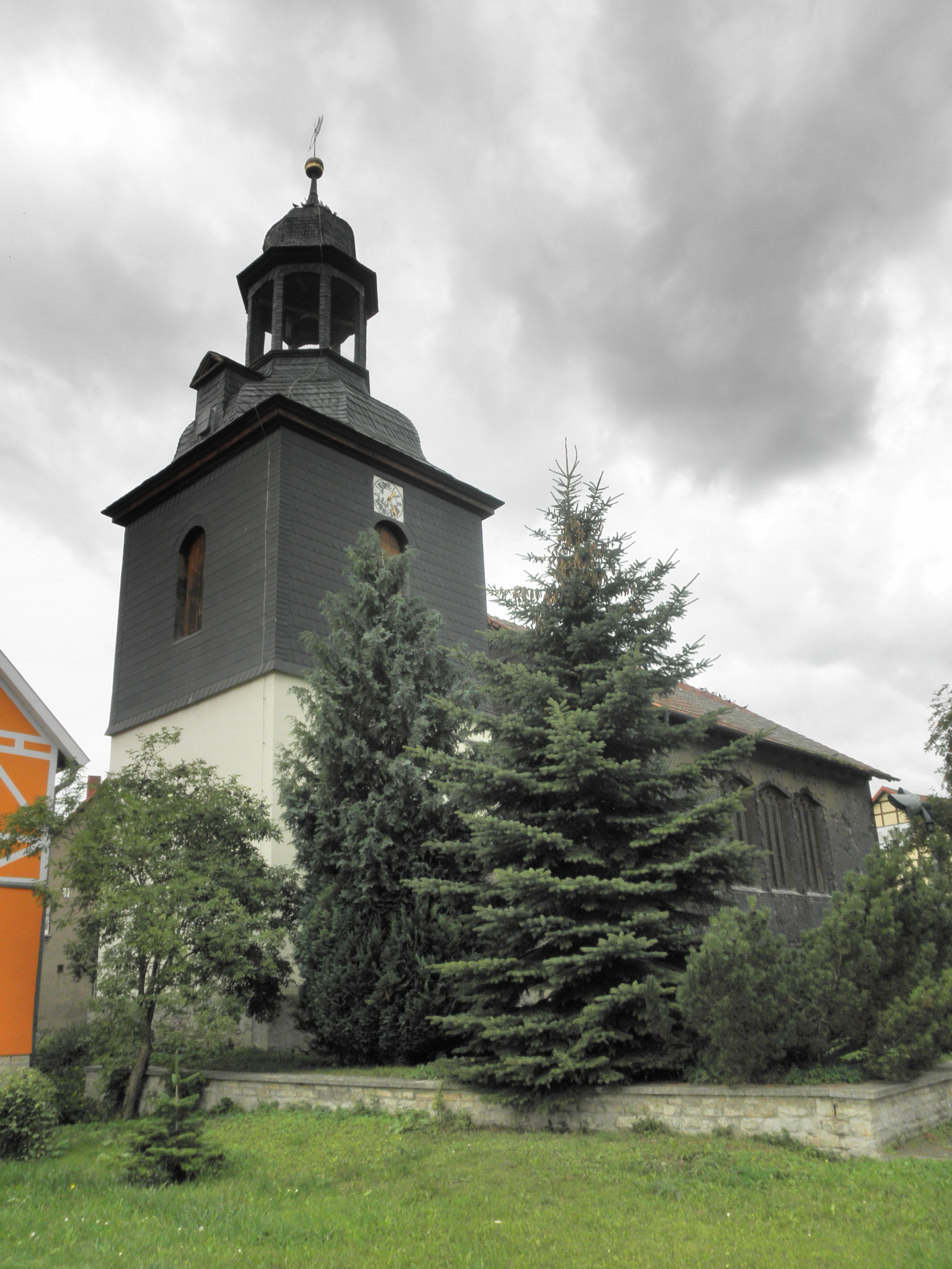 Church in Bruchstedt in Thuringia